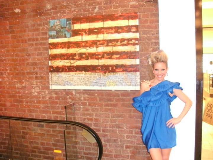 Fawni at her art gallery in New York.